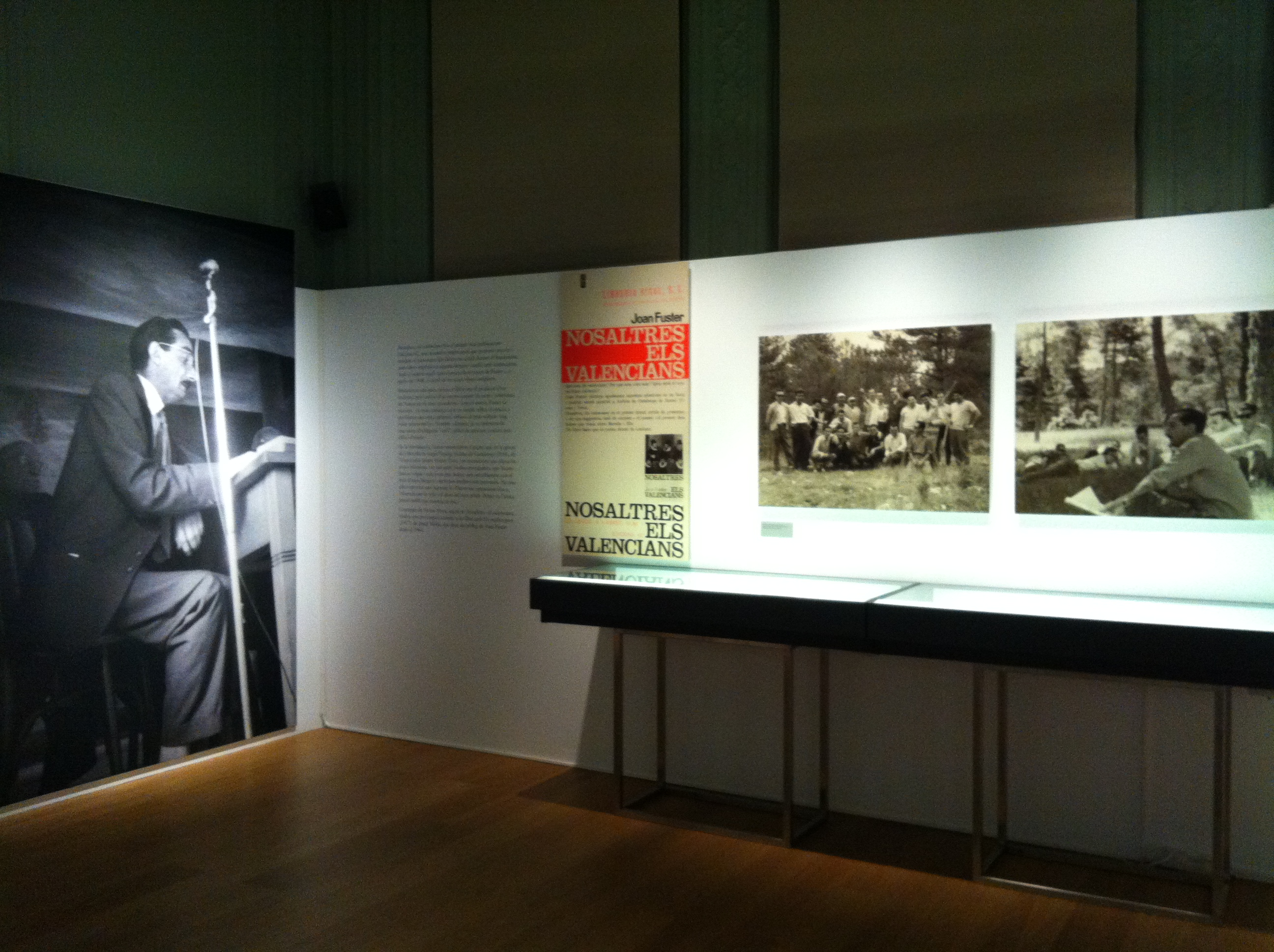 Joan Fuster. Nosaltres els valencians. 1962-2012 exhibition in Barcelona